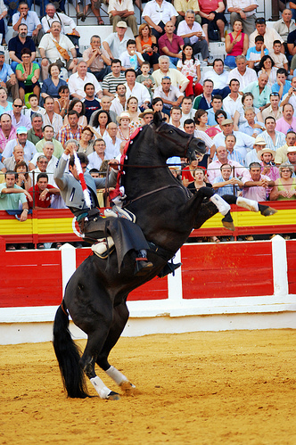 Rejoneo